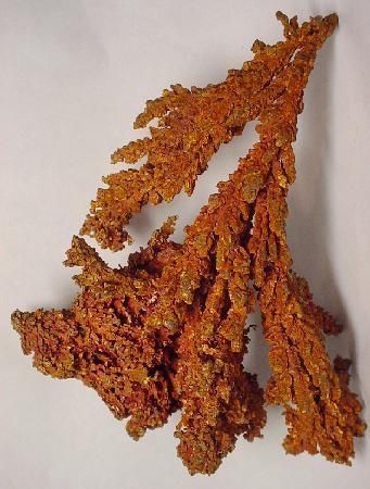 Copper Locality: Tsumeb Mine (Tsumcorp Mine), Tsumeb, Otjikoto (Oshikoto) Region, Namibia (Locality at ) This specimen, shapeed like a tree, stands on its own and displays well from either side. The exquisite crystallization is a rarity for Tsumeb, especially when combined with the overall aesthetics of the piece. This piece is regarded as one of the single most aesthetic large copper specimens from Tsumeb, which really did NOT produce a heckuva lot of native copper in good crystallized specimens. 10 x 8 x 4 cm